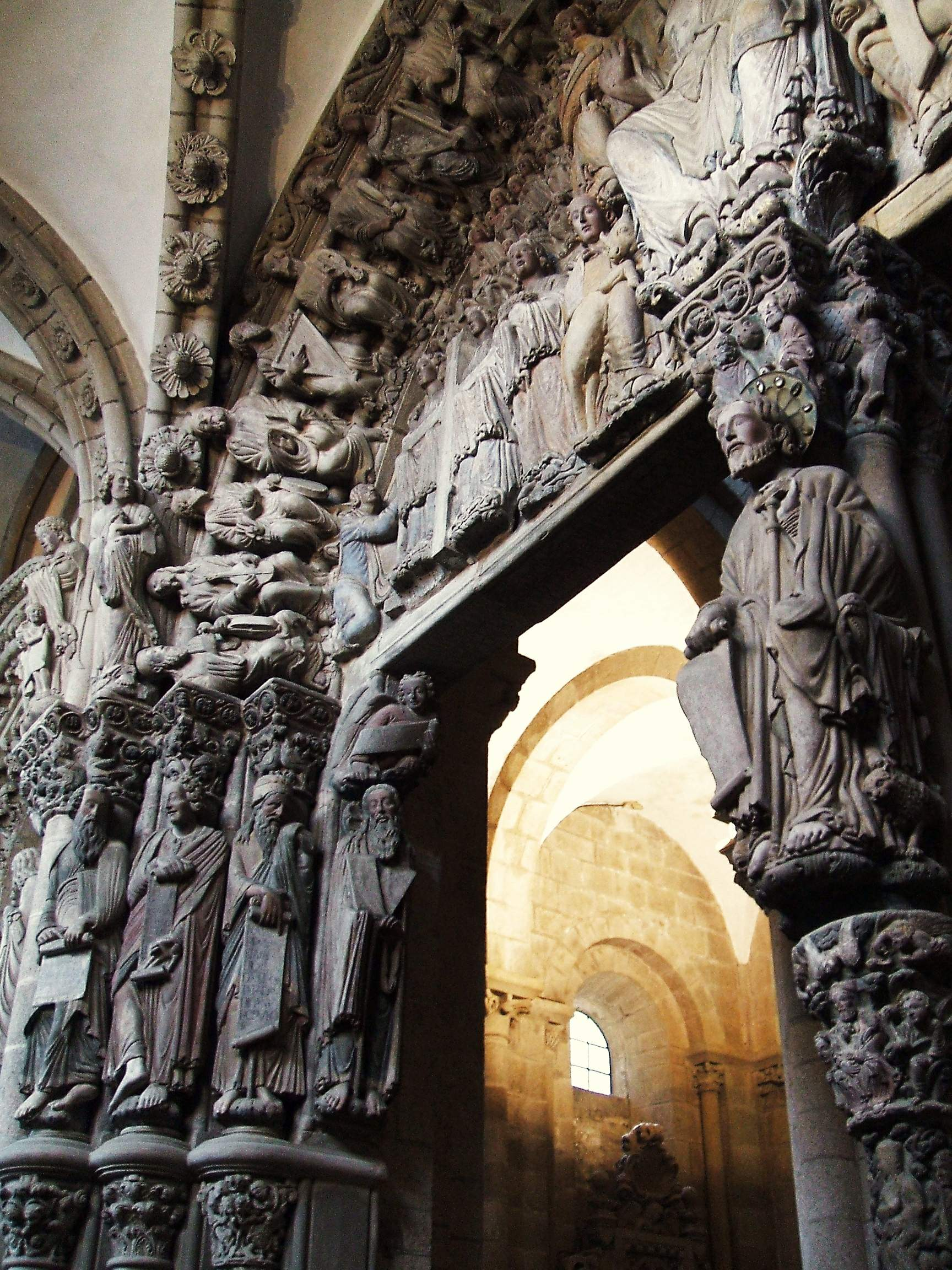 Cathedral of Santiago de Compostela